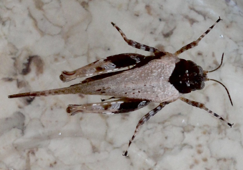 Tetrigidae Dorsal aspect Species unknown